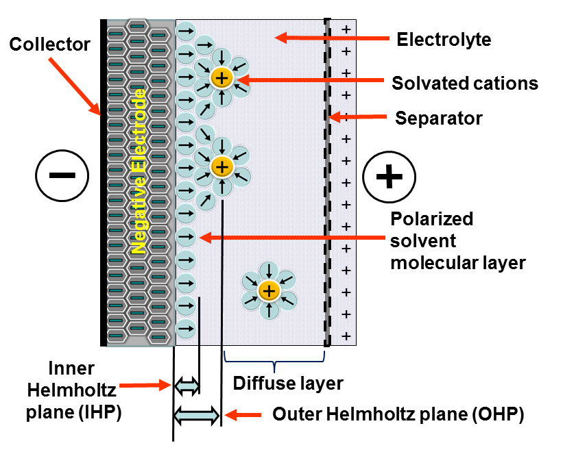 simplified charge storage principle of EDLCs in Helmholtz double layers